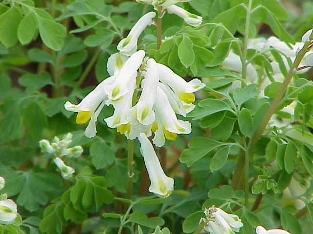 Species: Corydalis ochroleuca Family: Fumariaceae Image No. 1